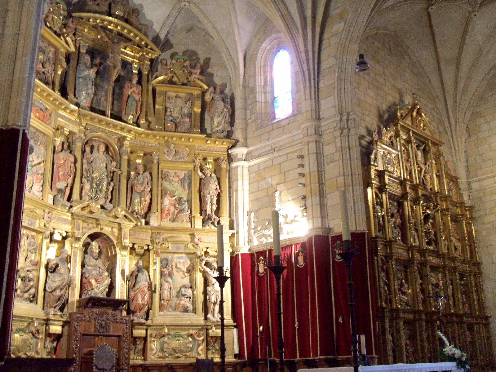 Concatedral de San Pedro (Soria)